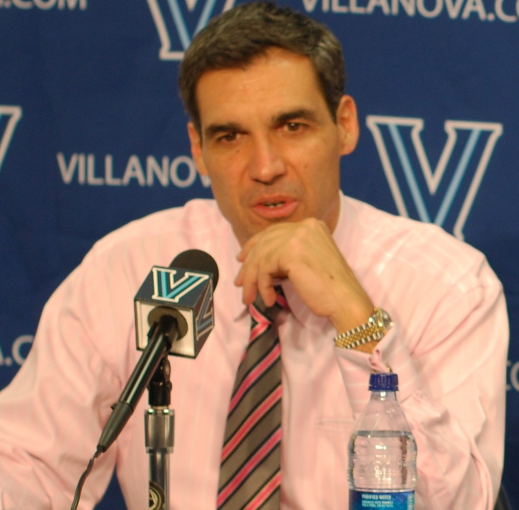 Villanova Head Coach Jay Wright (basketball) at press conference. This file has been extracted from another file: Jay Wright Scottie Reynolds press conf.jpg